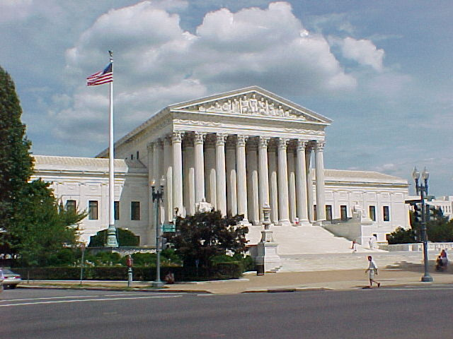 United States Supreme Court Building, Washington.